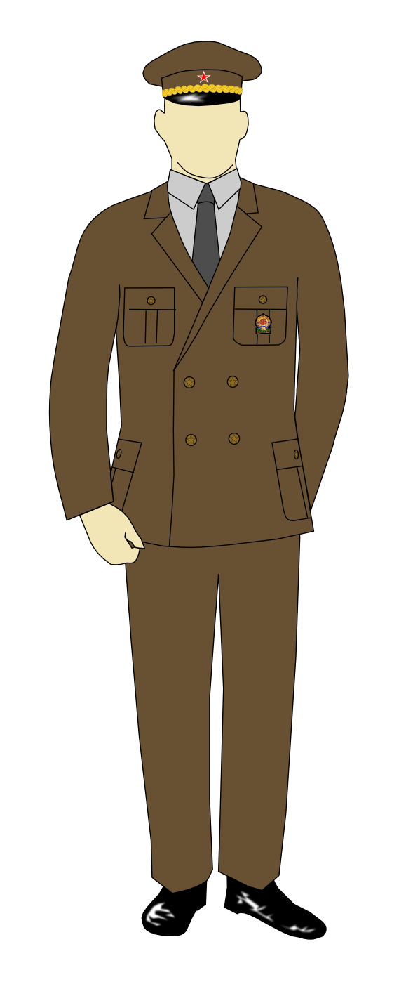 Yugoslavian Customs Officer in 1962- Man uniform. Based on legal prescription in official journal: Službeni list FNRJ , broj 33, god. XVIII. (15. kolovoza 1962). »Pravilnik o službenom odijelu službenika carinske službe.« str. 661-663.